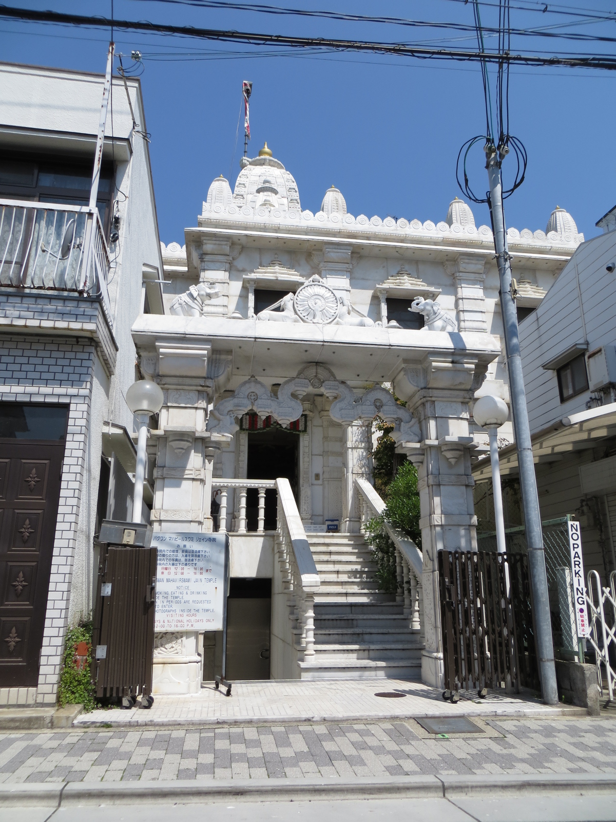 The Mahavirswami Jain Temple (Jainism in Japan), Kitano-chō, Kōbe.